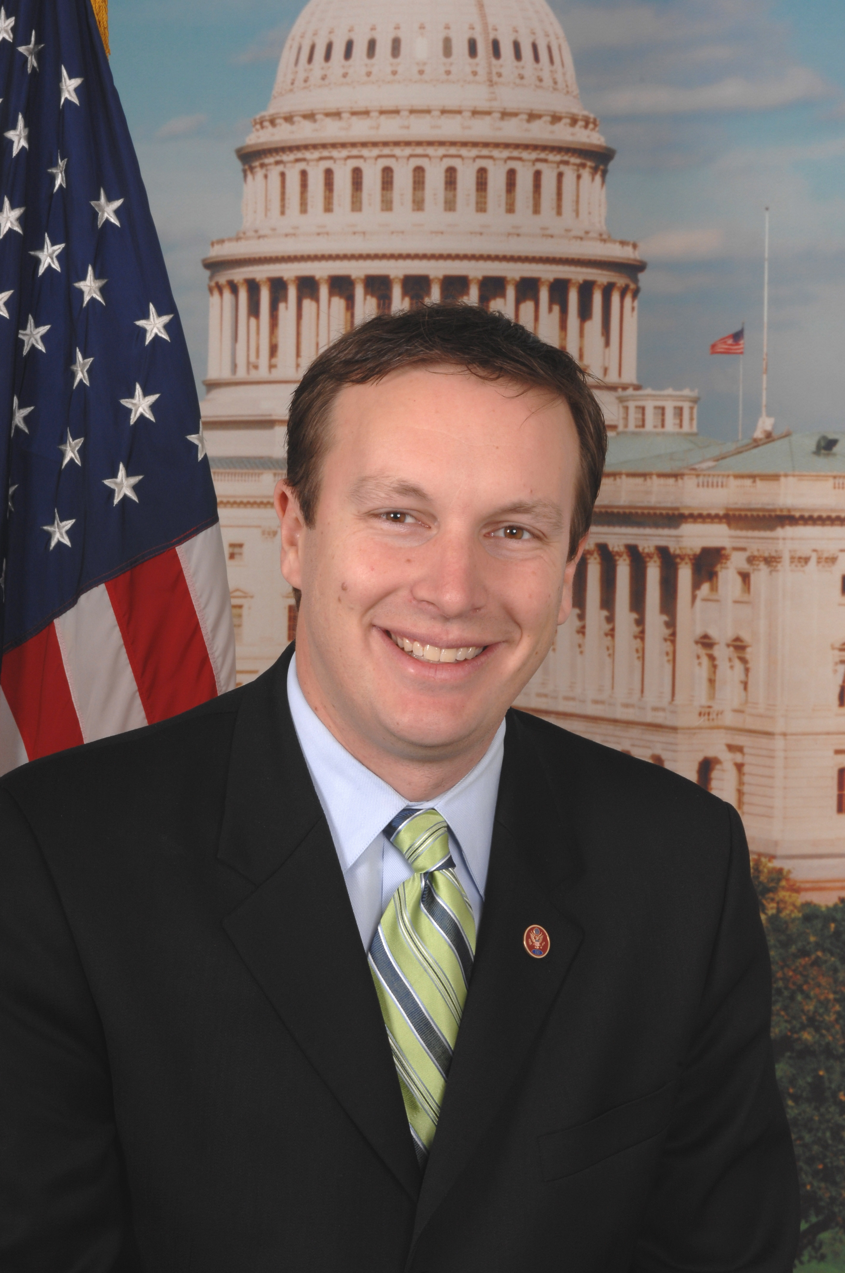 Chris Murphy, member of the United States House of Representatives.